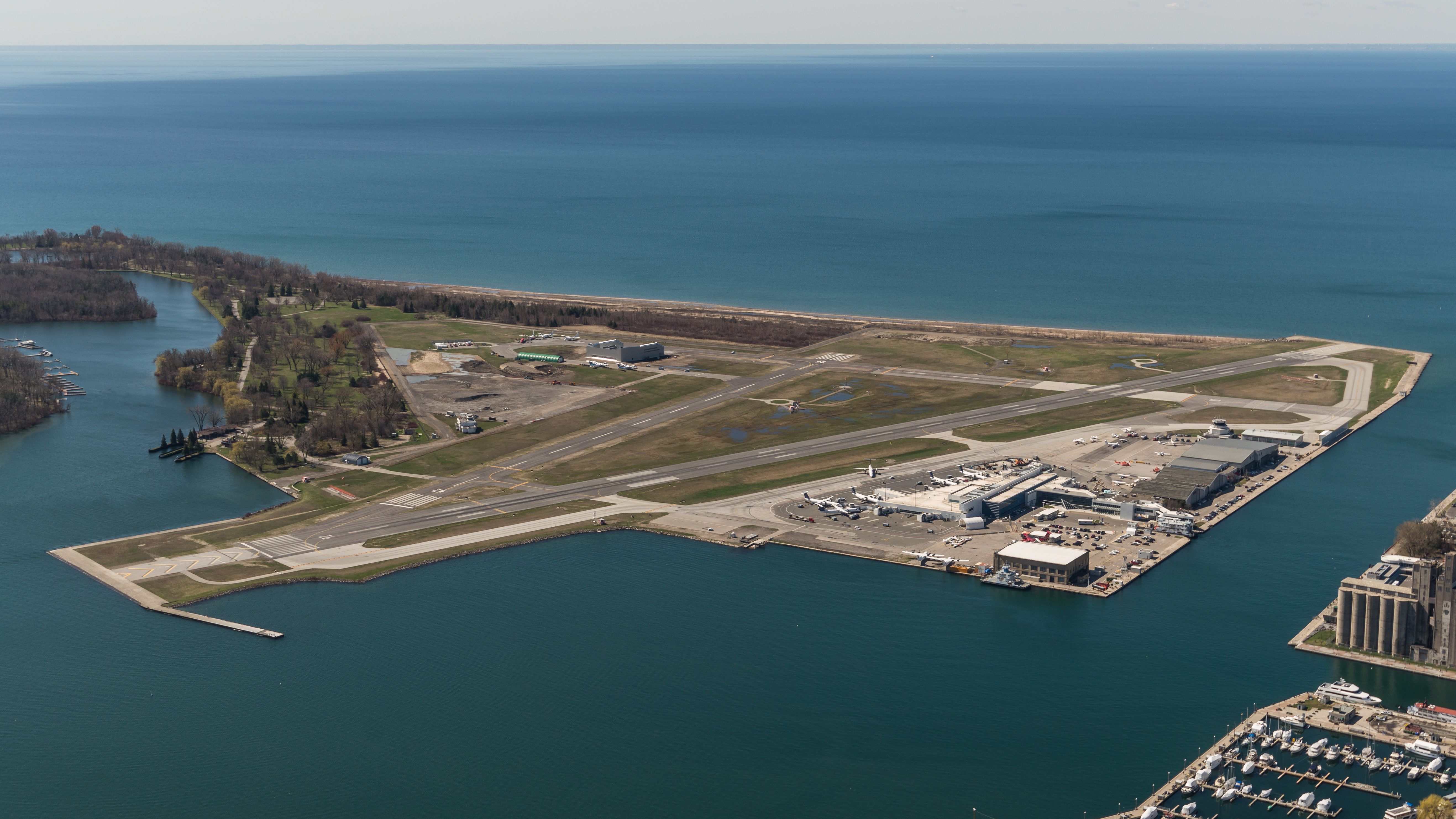 A view of Toronto City Airport from CN Tower, looking towards southwest